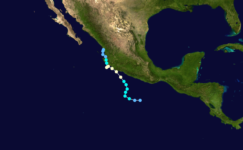 Hurricane Hernan (1996) track. Uses the color scheme from the Saffir-Simpson Hurricane Scale.